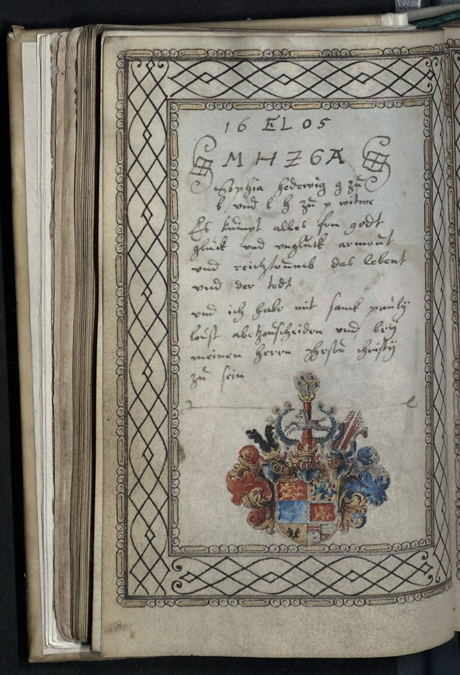 Coat of arms and autograph of Sophie Hedwig of Brunswick-Wolfenbüttel (1561–1631) in the Album amicorum of David von Mandelsloh 1605